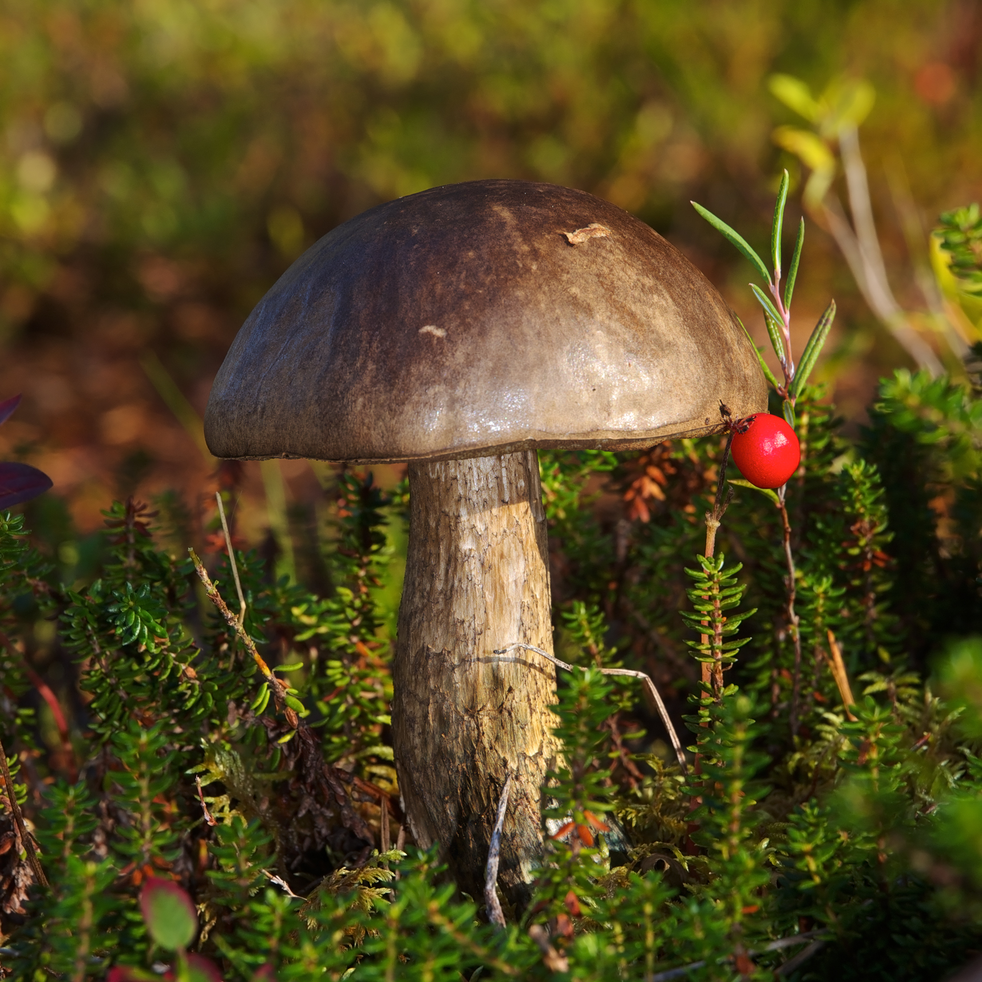 Mottled Bolete (Leccinum variicolor), Ånderdalen, Senja, Norway